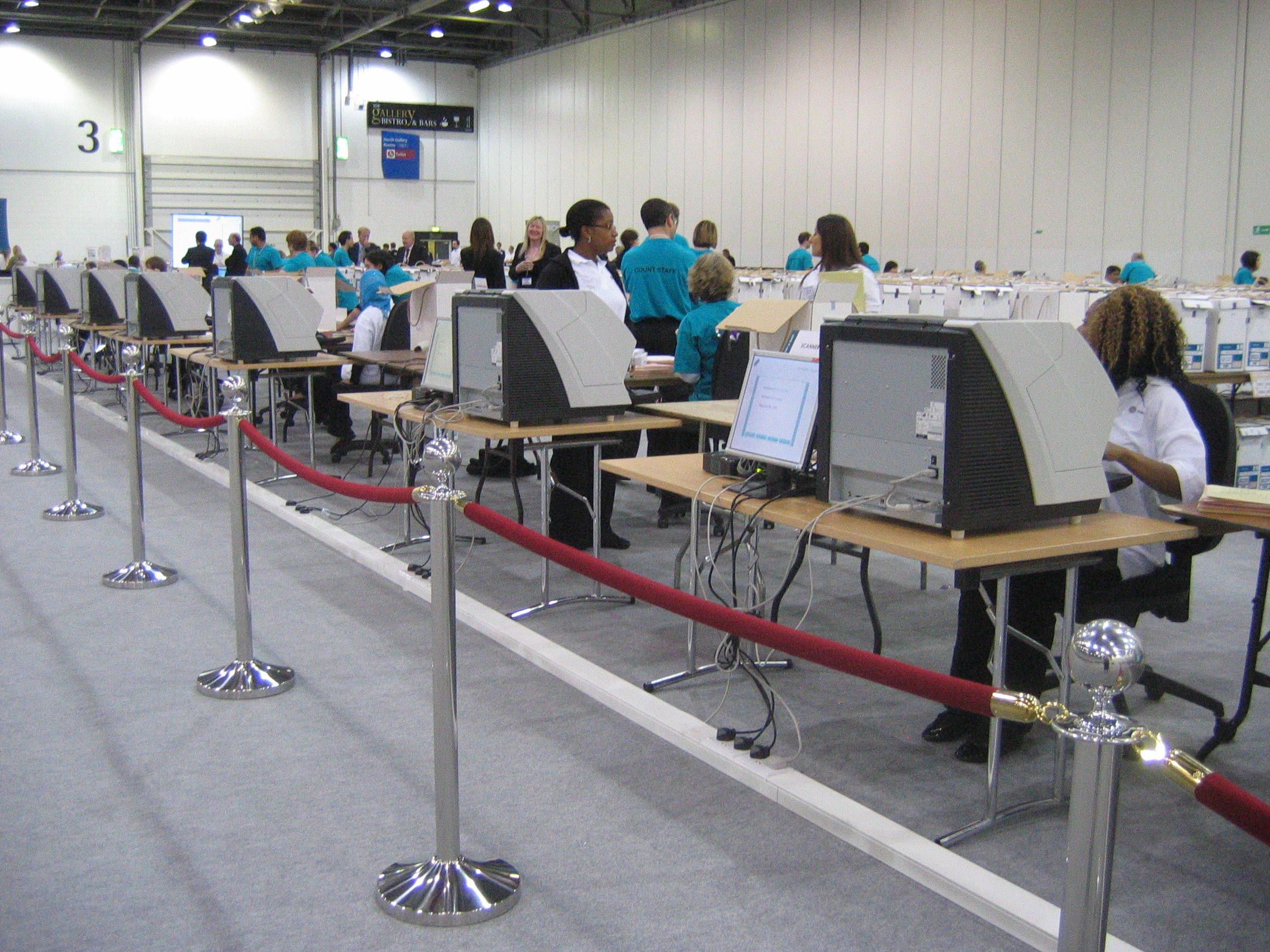 London Elections 2008, Excel count centre. Scanners for the e-counting process.